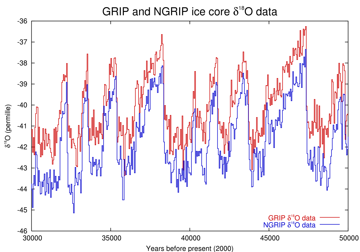 GRIP and NGRIP ice core delta-O-18 data; closeup between 30kyr and 50kyr BP. Note that the GRIP data is plotted on its native timescale; the NGRIP timescale has been shifted linearly so that the jumps at 35.5 and 44.5 kyr coincide between the cores. The offset in delta-O-18 between the cores is real.